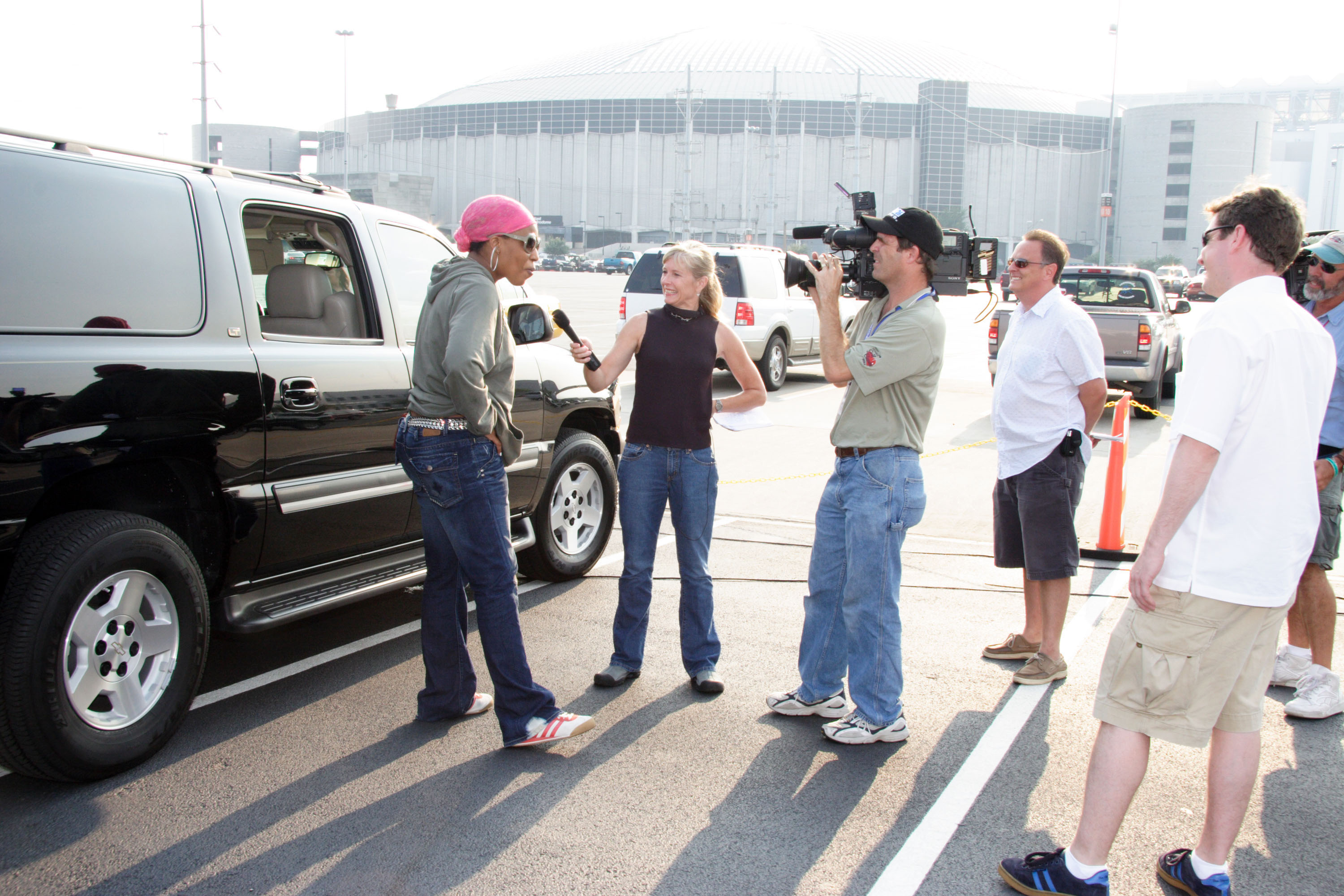 Houston, TX, September 3, 2005 - Singer Macy Gray visited the Astrodome and voluntered. Ms Gray is one of many thousands who volunteer at the Astrodome. Photo by Ed Edahl/FEMA